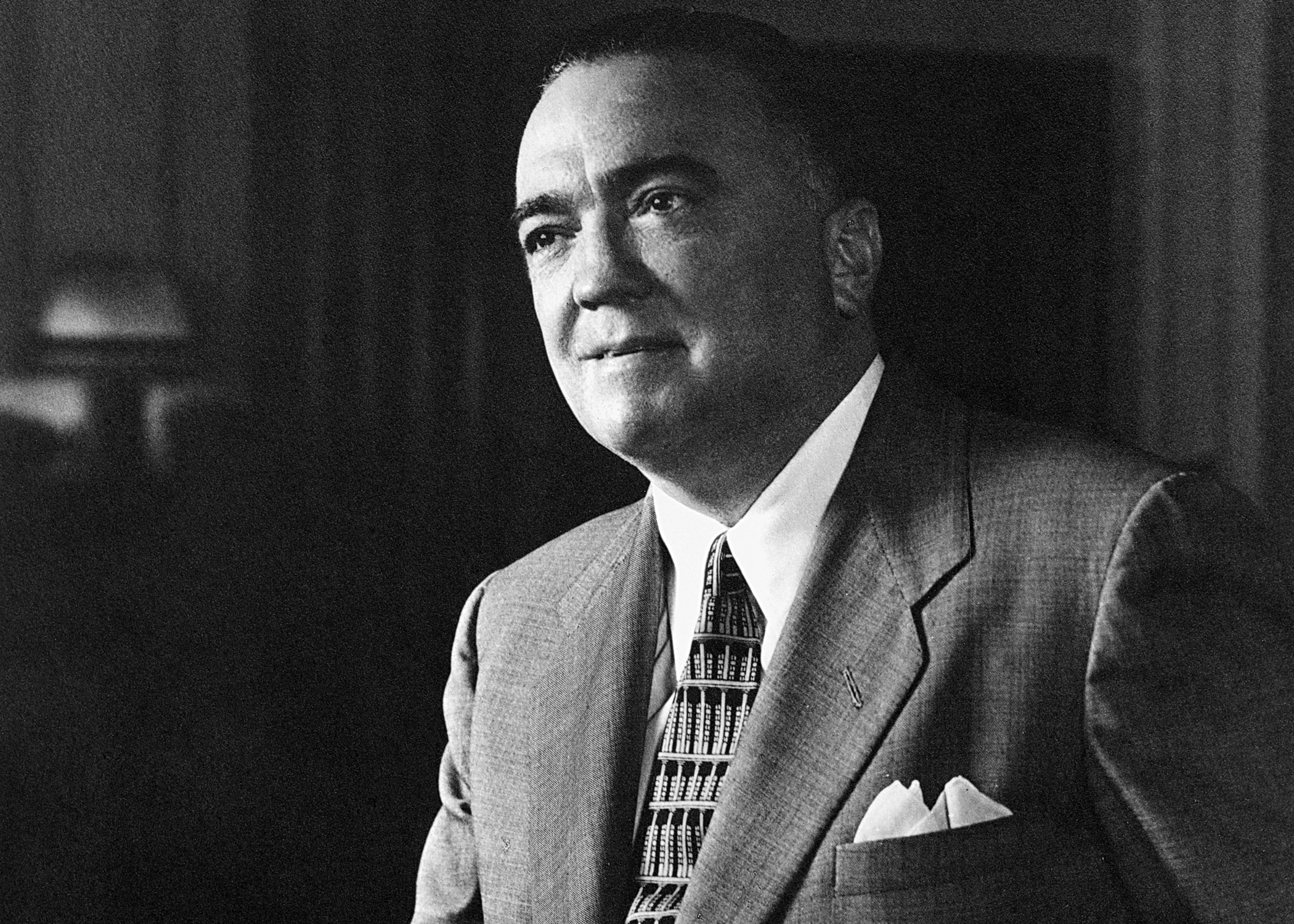 J. Edgar Hoover, FBI Photos